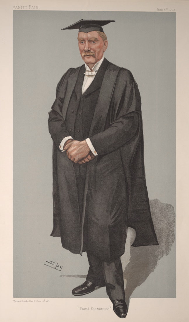 Men of the Day No.881: Caricature of Mr A. C. Benson MA. Caption reads: "Fasti Etonenses"